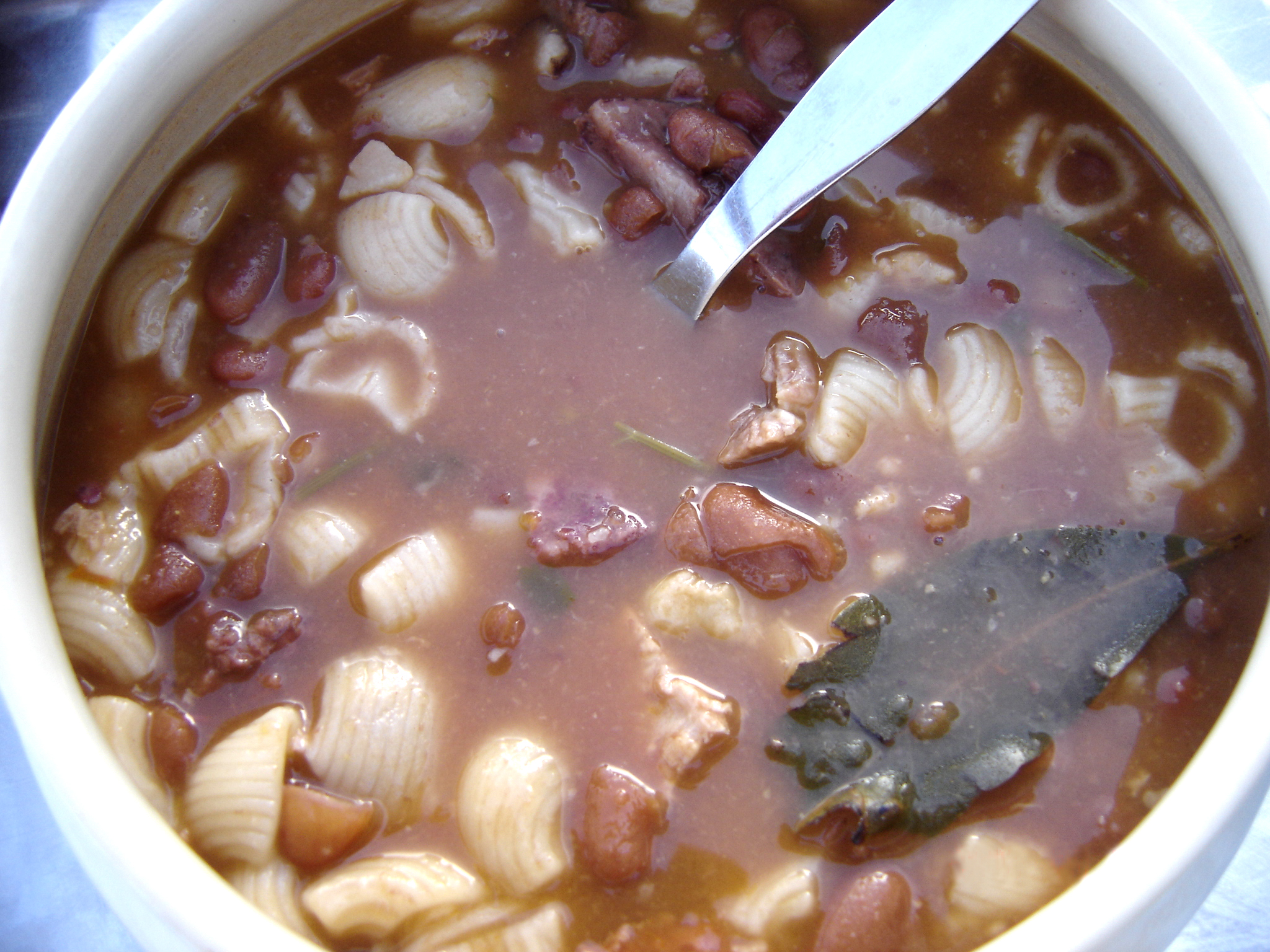 "Sopa de pedra" - typical Portuguese soup.